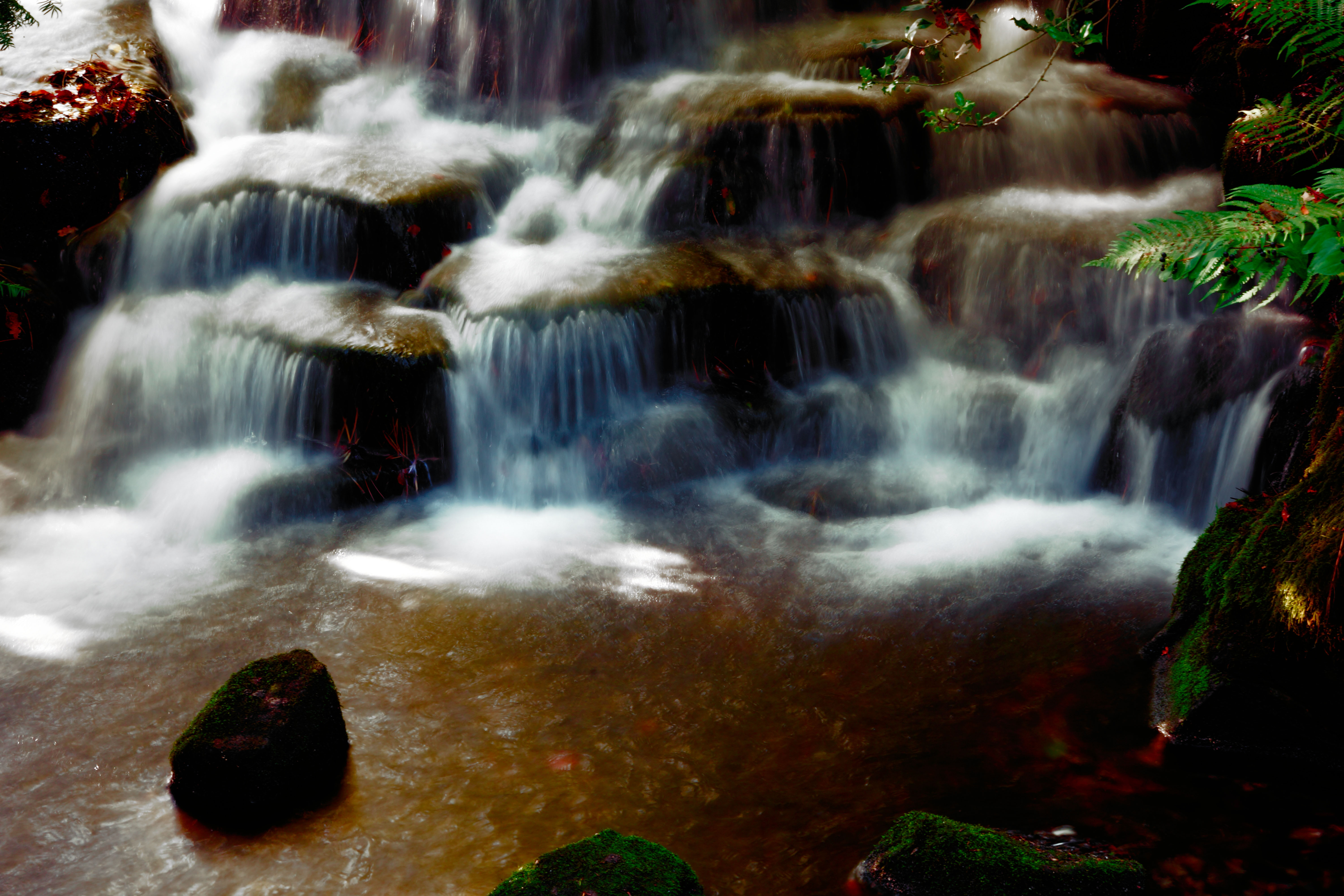 Another attempt same day with new ND filter, same place but different POV. I think in this shot the focus on the rocks perhaps improves the look?